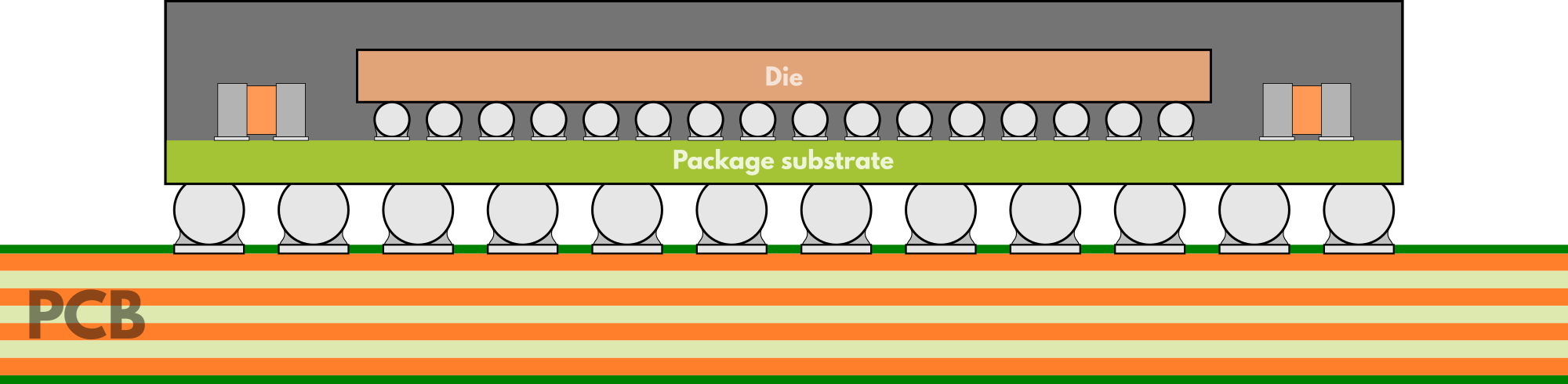 On-packge capacitors